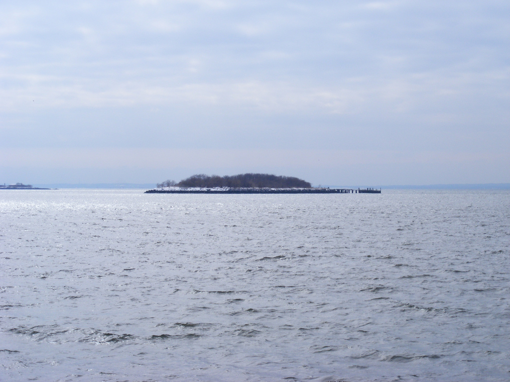 Hoffman Island, 2010